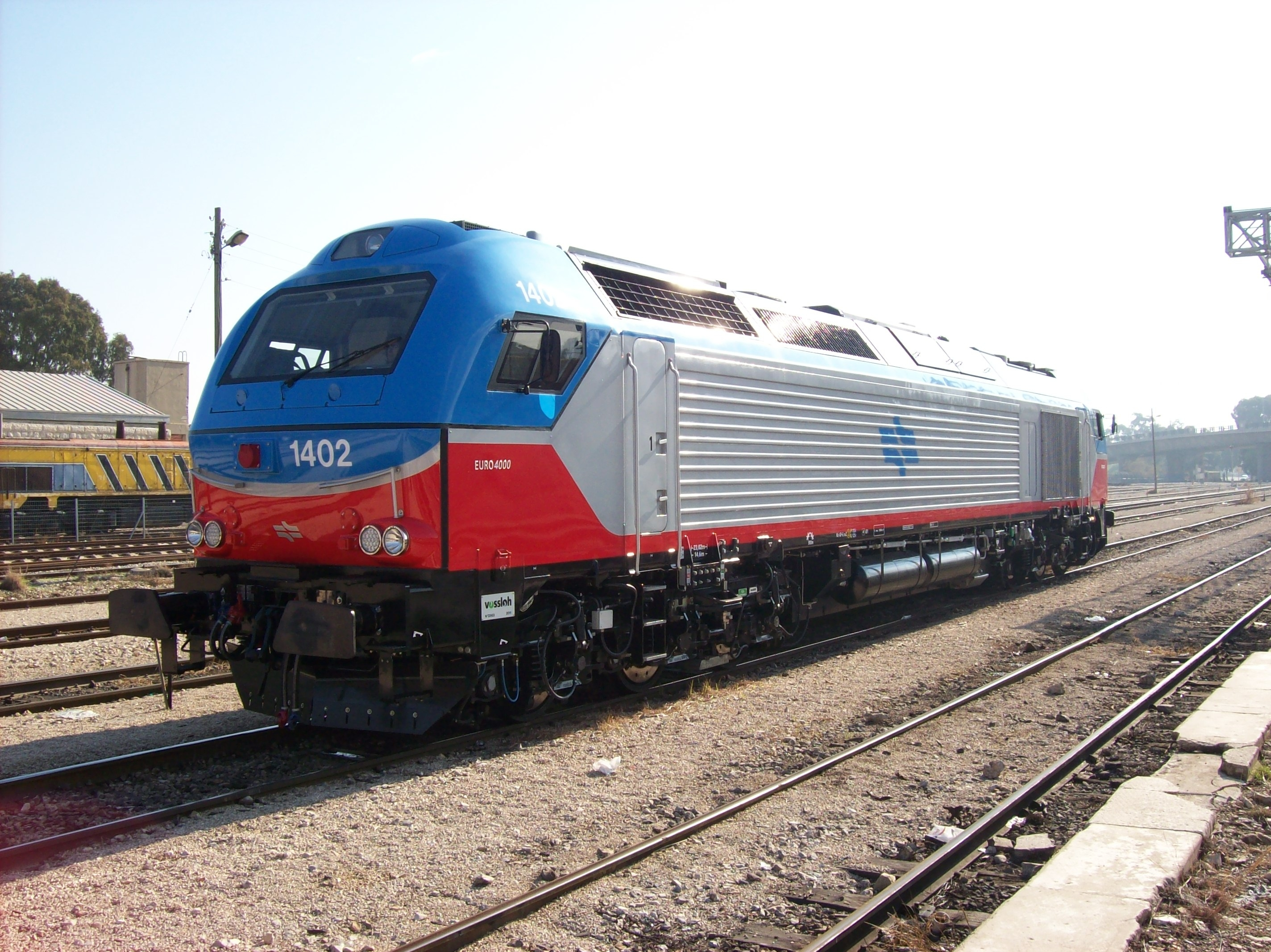 Euro 4000 a new locomotive to Israel Railways at Haifa East station, before a trial run.